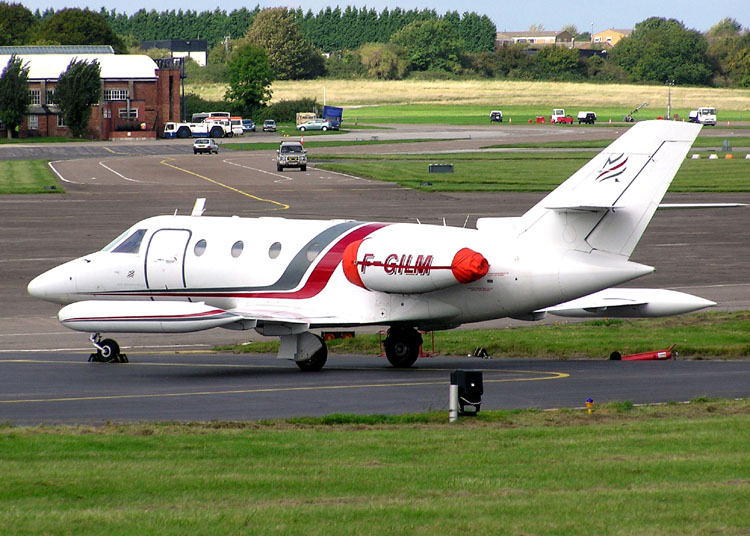 Aerospatiale Corvette SN601 business jet (F-GILM) at Filton Airfield, Filton, Bristol, England.